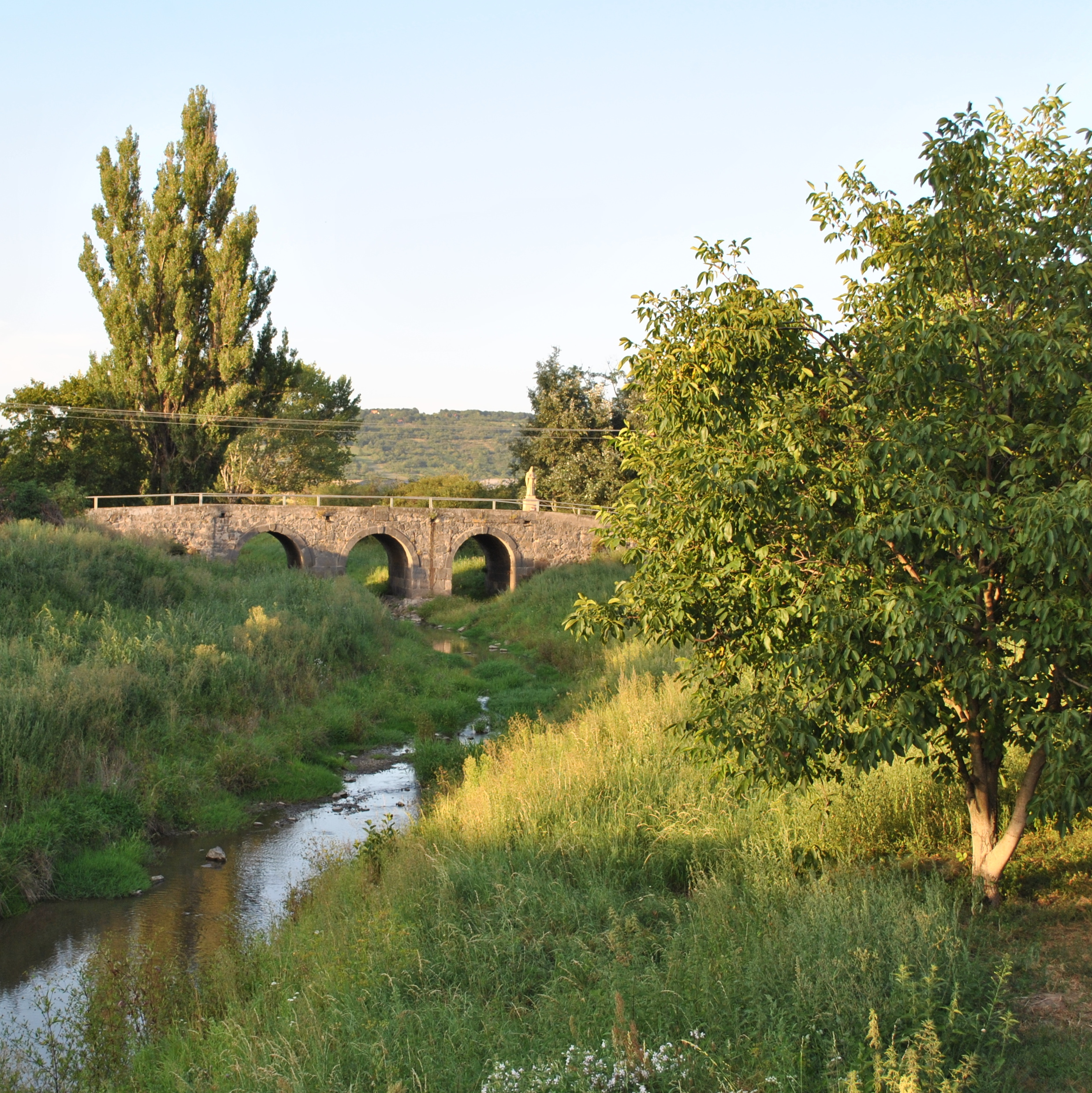 Bátovce, bridge from 18th century